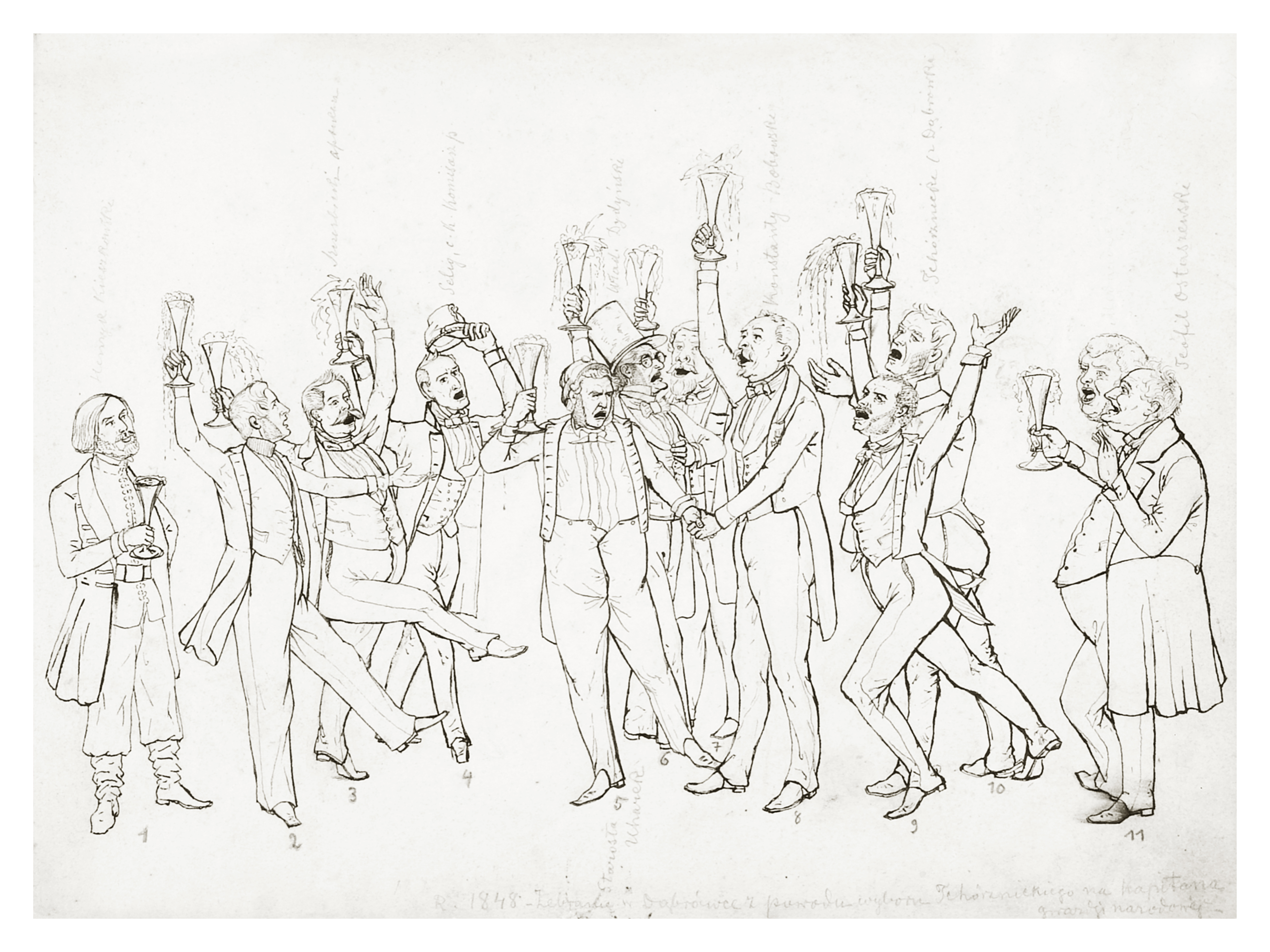 Polish landlords celebrate the Revolutions of 1848 (the Spring of Nations). A drawing by Jan Nepomucen Gniewosz from ca. 1860